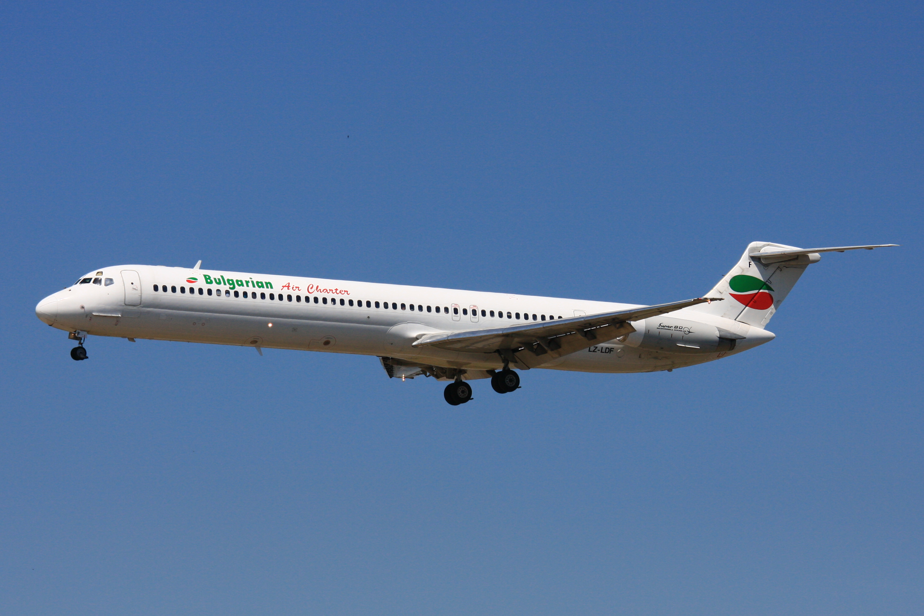 A McDonnell_Douglas_MD-82 of Bulgarian Air Charter landing at Frankfurt Airport